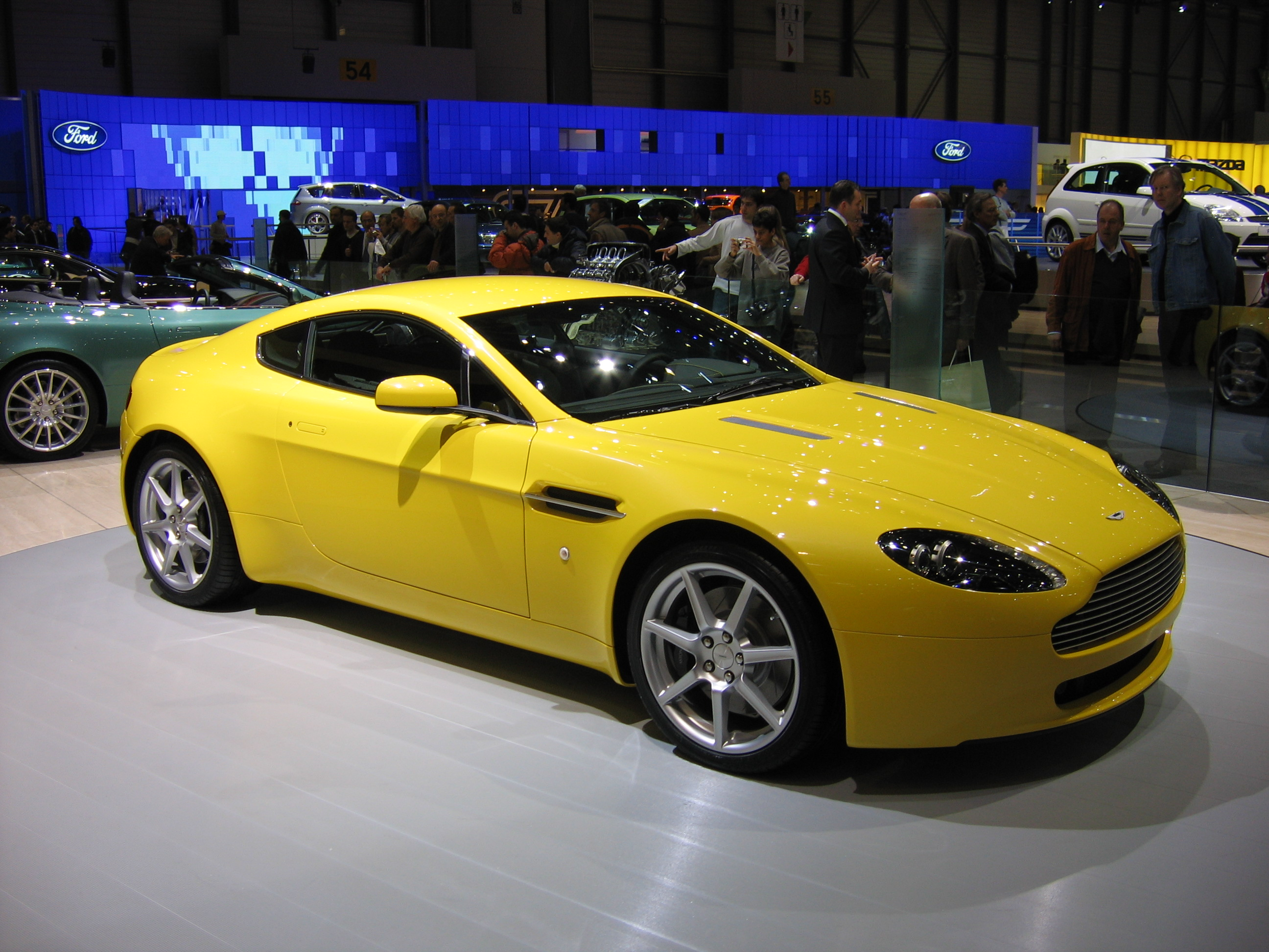 Geneva Motor Show 2005